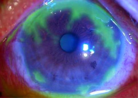 Herpes simplex virus corneal epithelial involvement in a patient on systemic corticosteroids